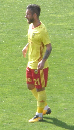 Adem Büyük, Turkish footballer.